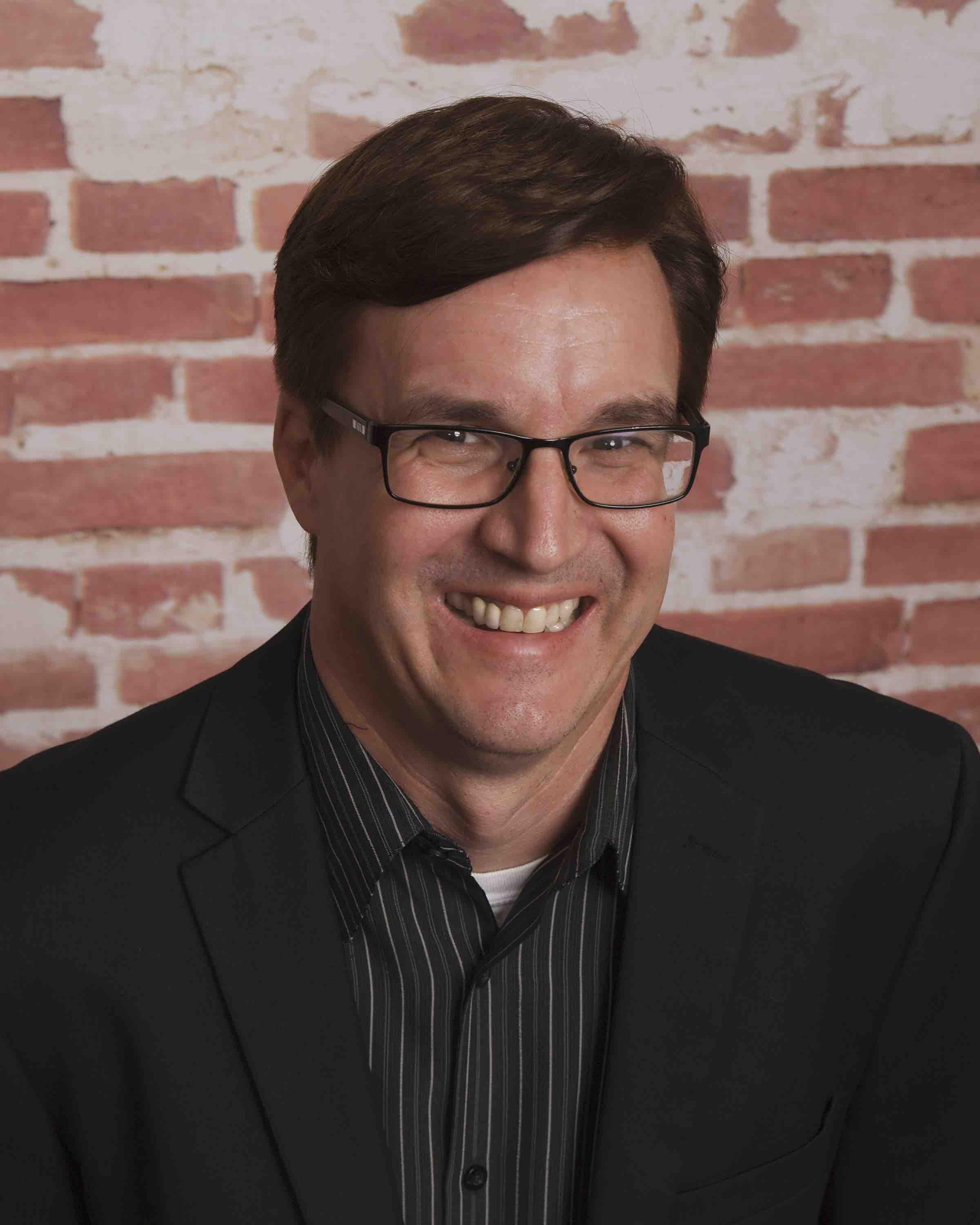 Producer-Director-Writer-Author Chris LaMont poses in front of a brickwall facade at a portrait studio